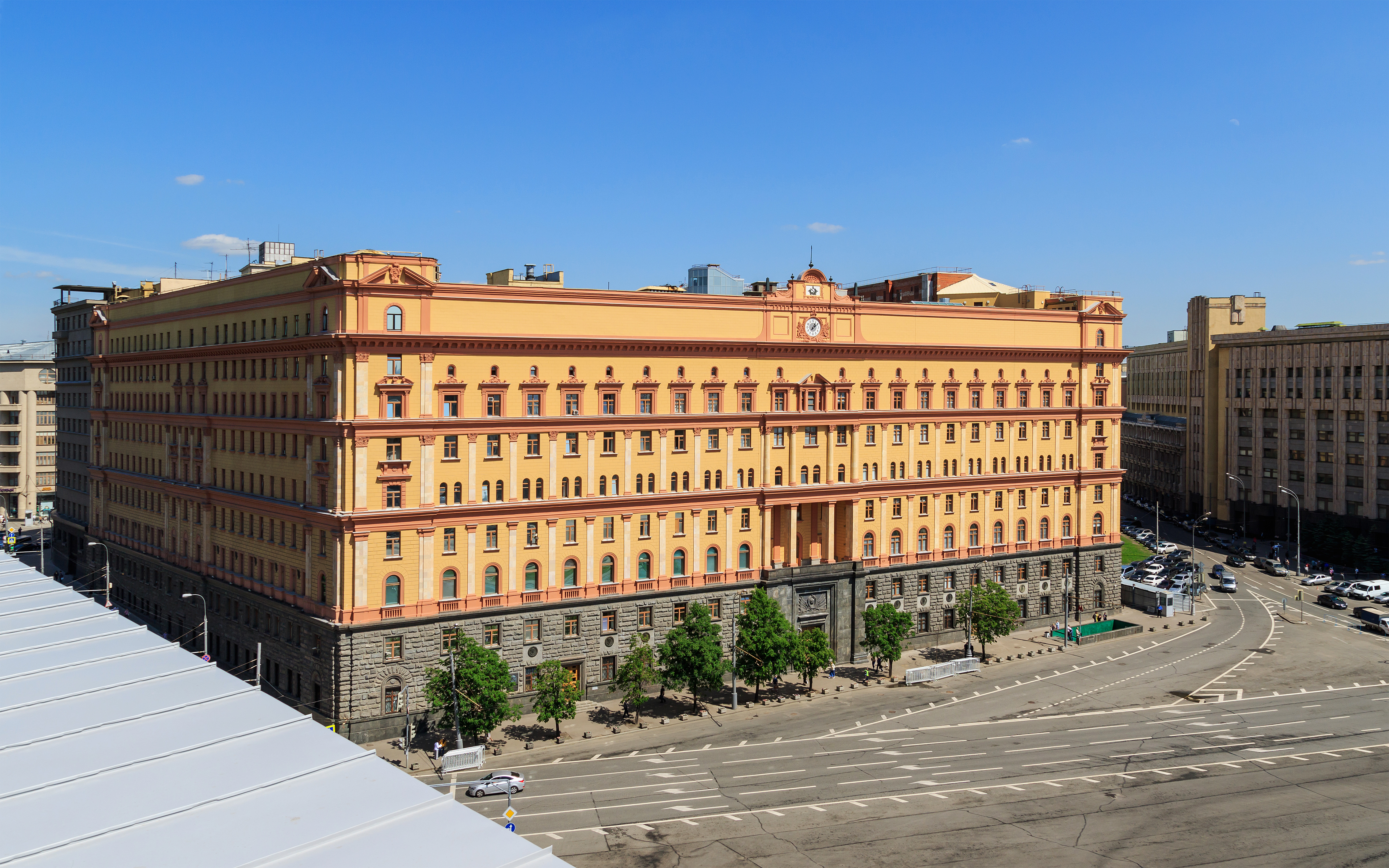 View from the Panoramic view point of the Central Children’s Store at Lubyanka Square in Moscow